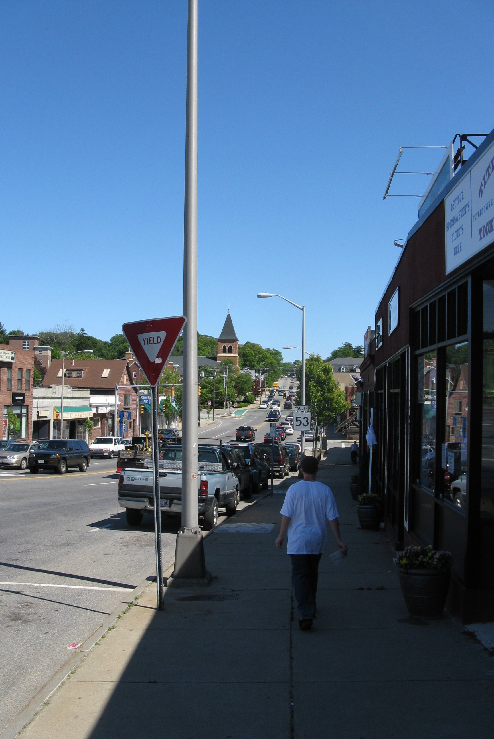 MA Route 53 southbound in Braintree Massachusetts